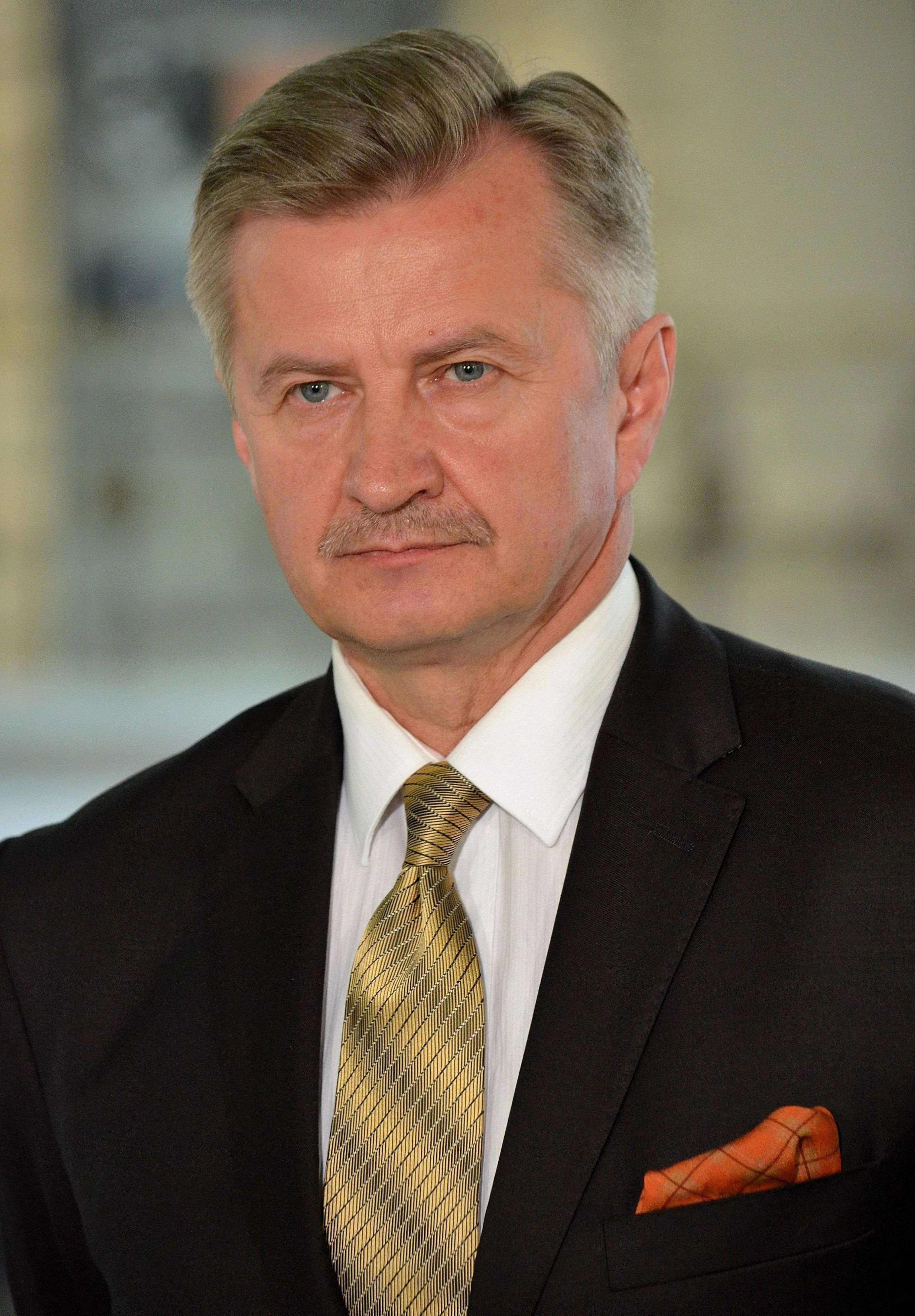 Deputy Stanisław Wziątek in the Sejm